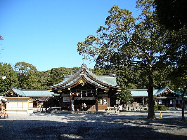 真清田神社